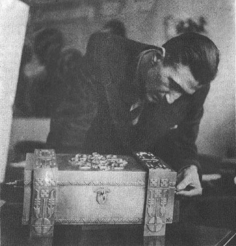 Lithuanian president Antanas Smetona prize, dedicated to EuroBasket 1939 winners. It is a silver chest decorated with ambers. The prize concept was based on Lithuanian dowry chest.